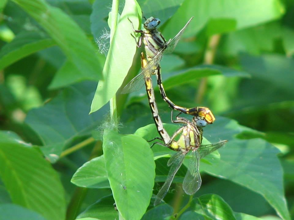 Sulphur-tipped Clubtail (Phanogomphus militaris), llela